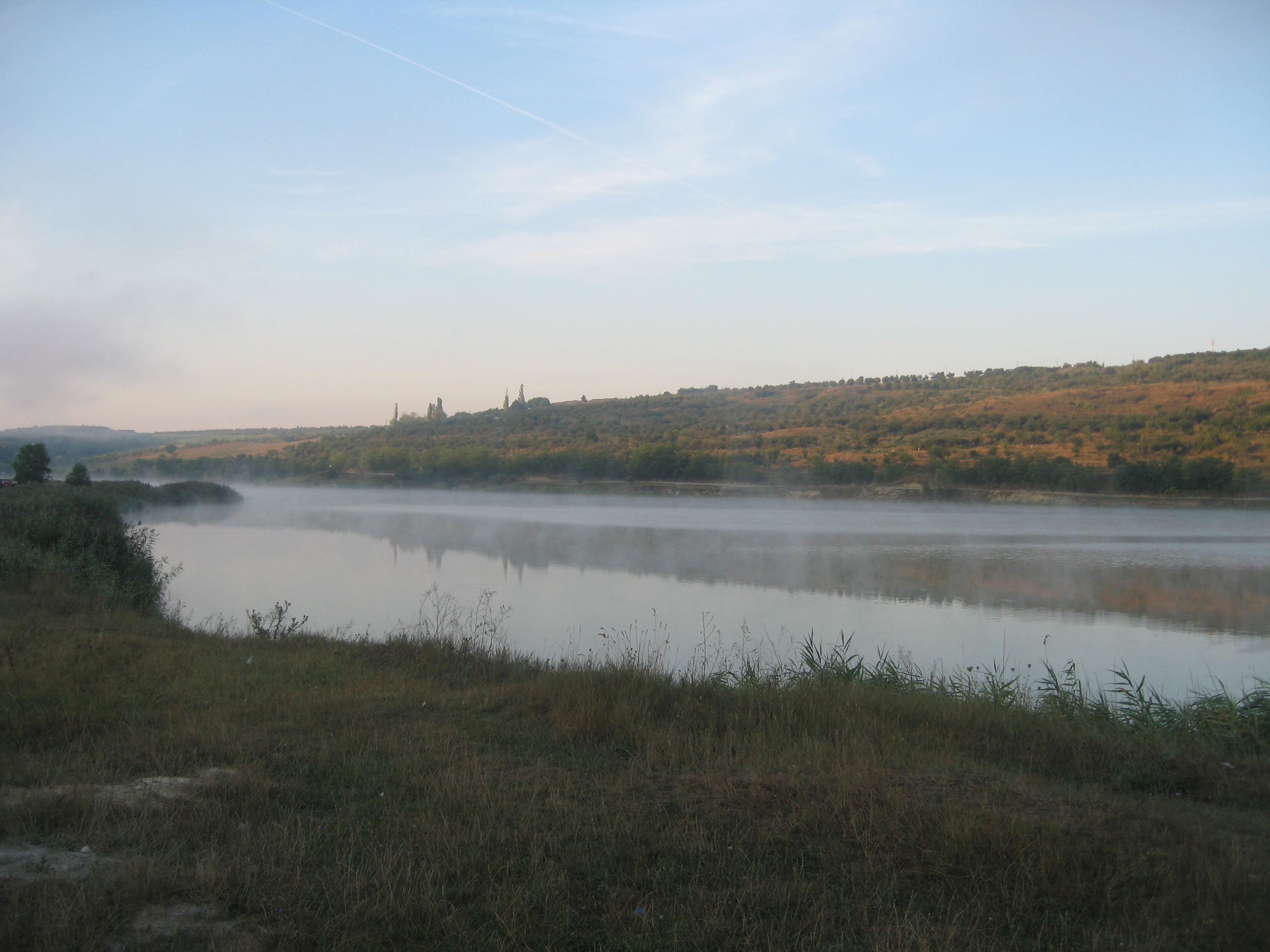 Barajul Aroneanu